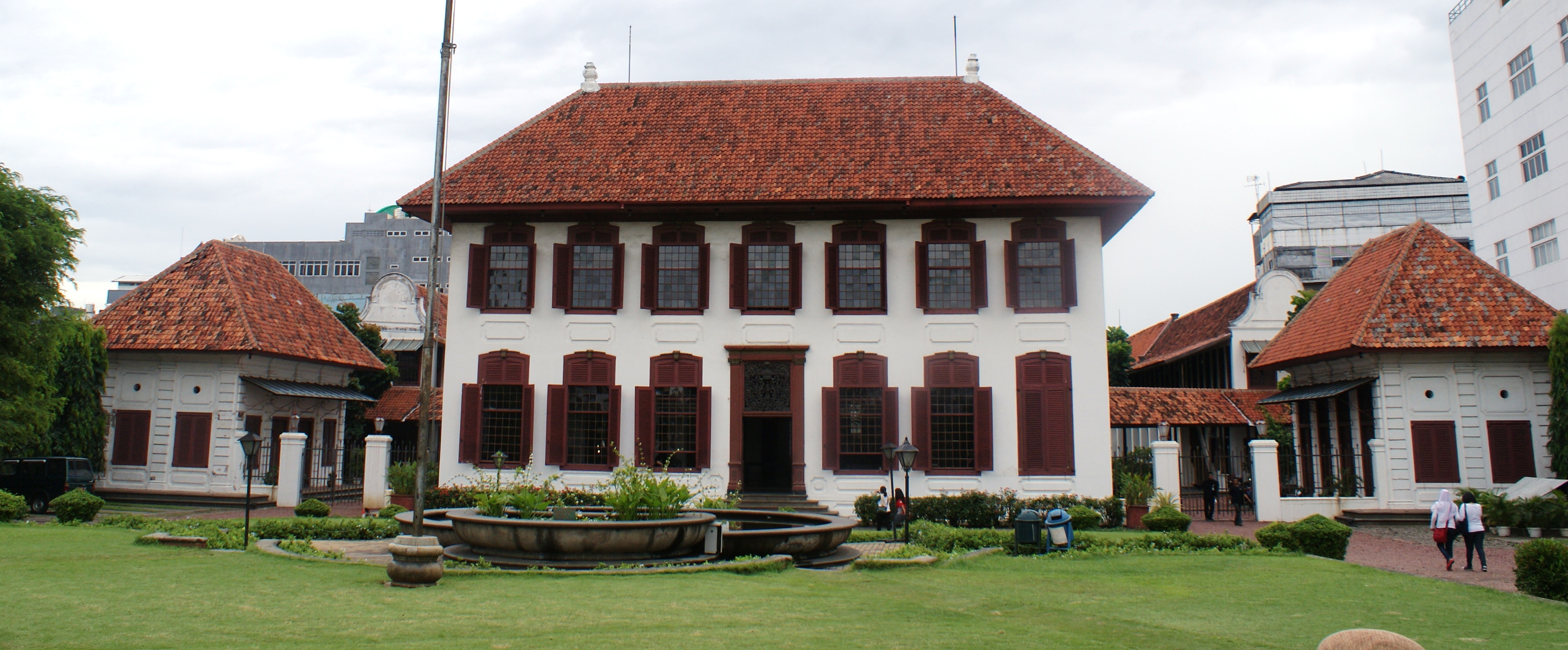 National Archives of Indonesia Building (Gedung Arsip Nasional) 2013. The former house of R. de Klerk (1777-1780). Jakarta - Indonesia.